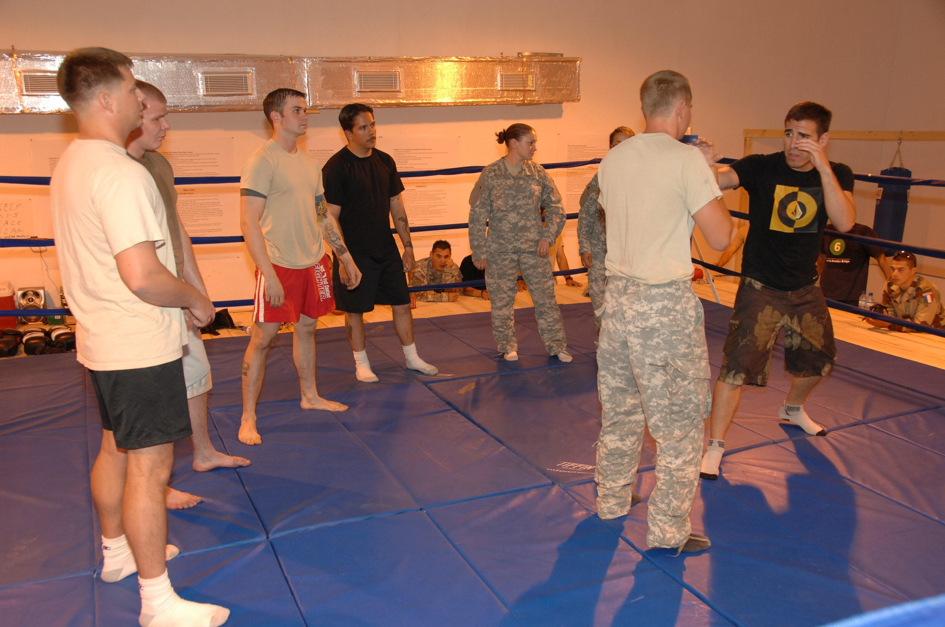 Ultimate Fighting Championship fighter Kenny Florian demonstrates techniques to coalition Soldiers at Bagram Airfield, July 24, 2007.